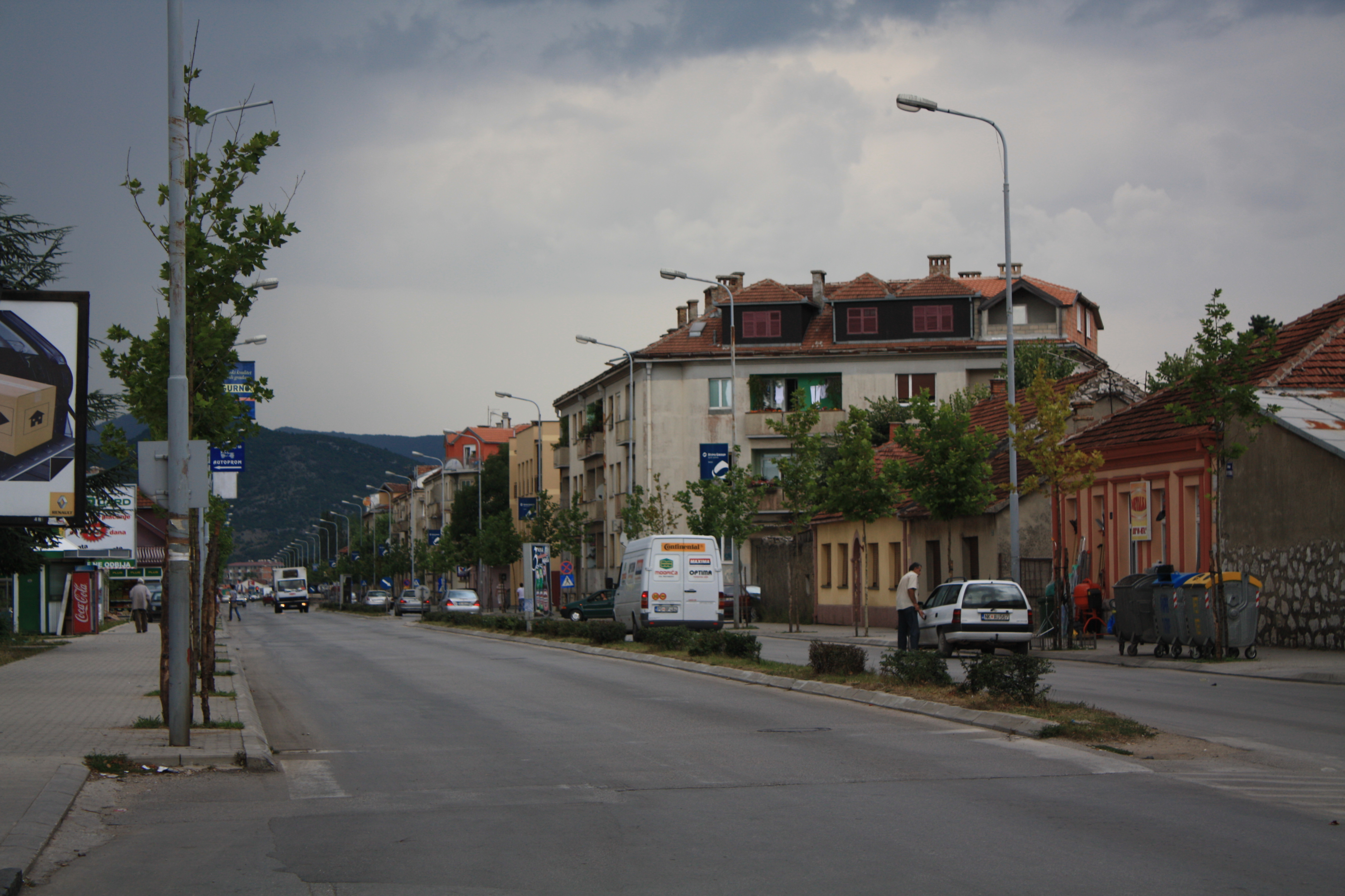 Nikšić, Montenegro - town centre